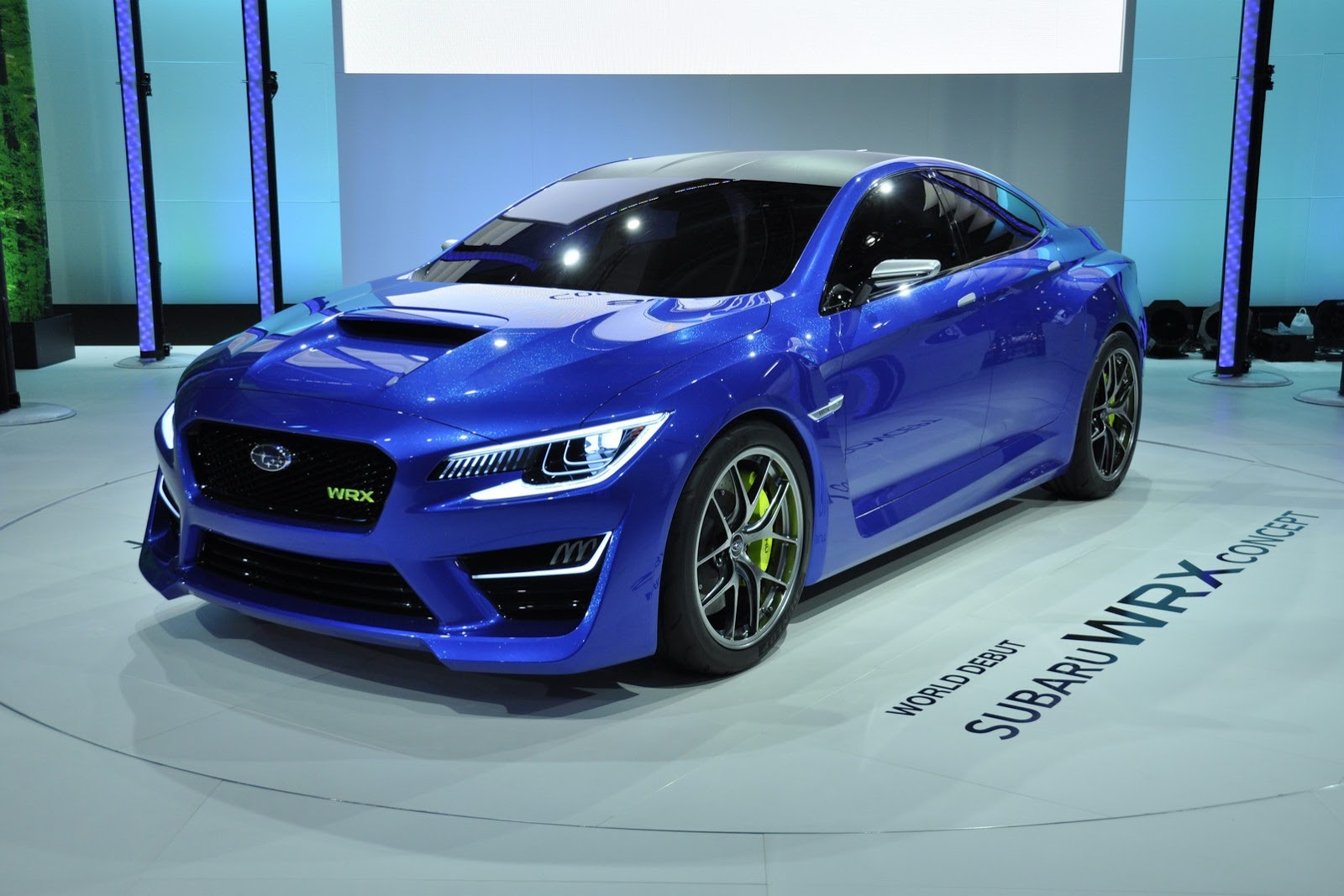 Subaru WRX concept.